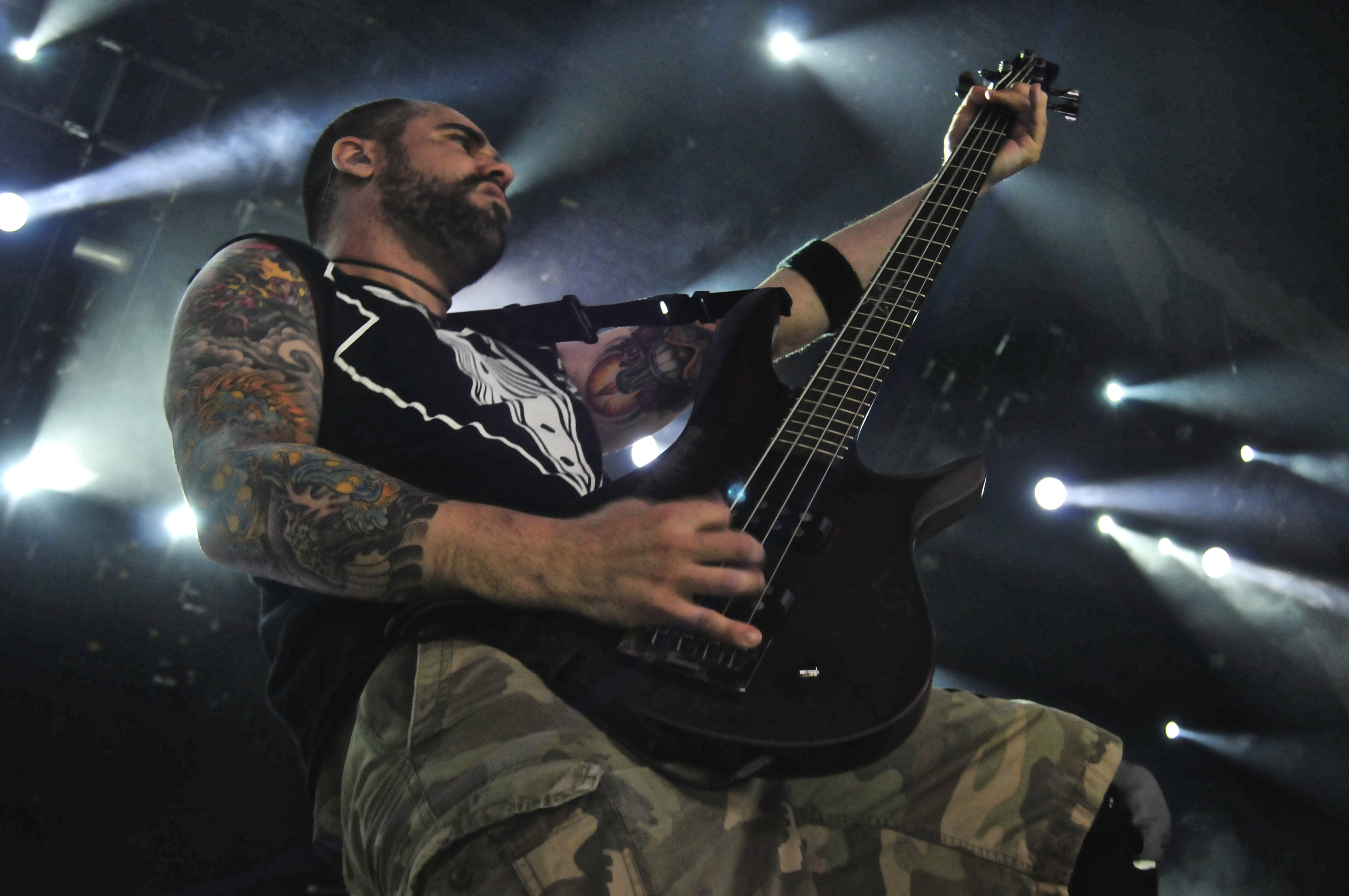 Mike D'Antonio live in concert